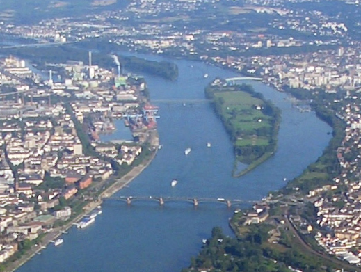 Crop of Aerial shot of Mainz, looking NW, with Wiesbaden and the Taunus in the background.